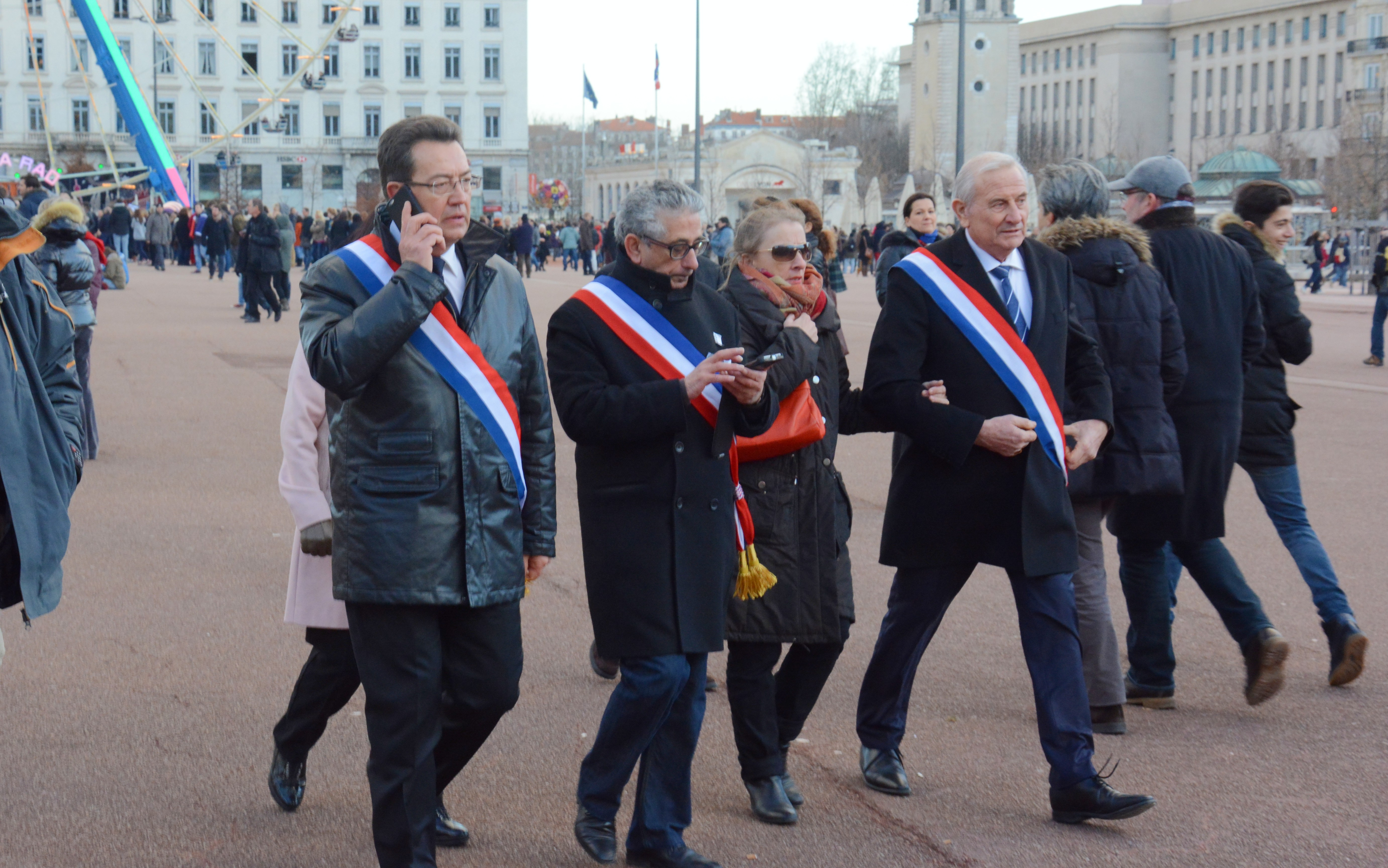 Republican march of january, the 11th 2015 to victimes of the attack of january, the 7th 2015 at the Charlie Hebdo's office